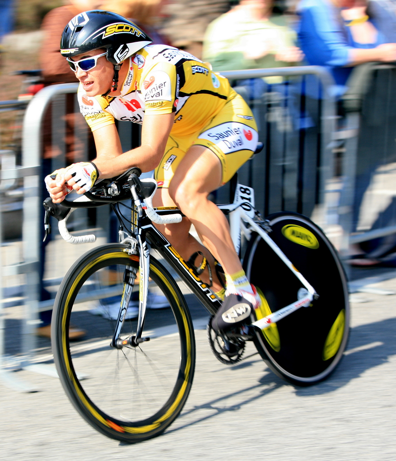 Luciano Andre Pagliarini Mendonca at the Prologue of the Tour of California in Palo Alto